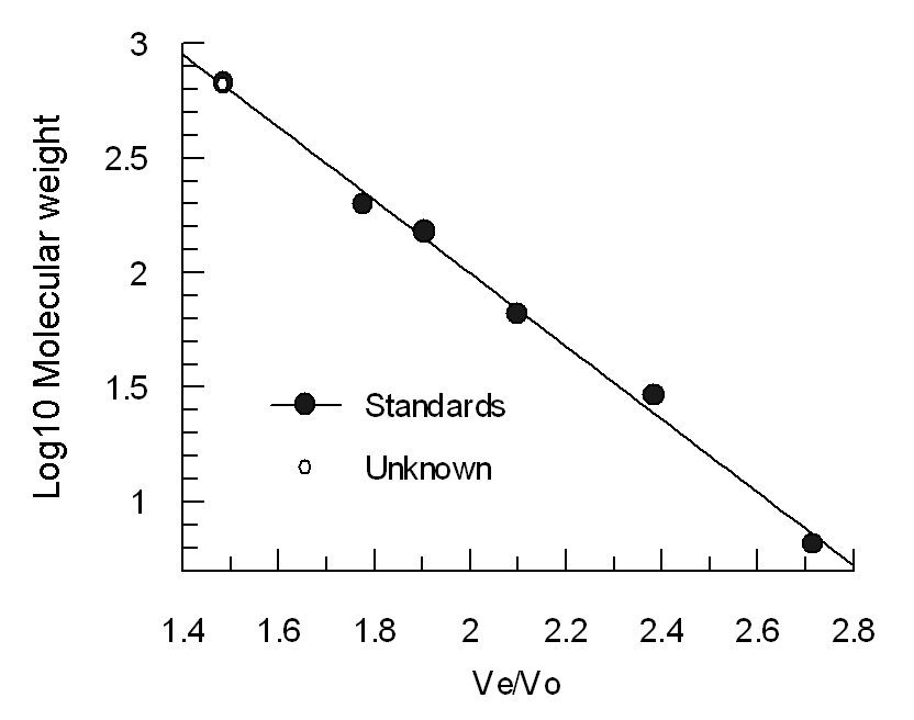 Standardisation of size exclusion chromatography using protein standards of known size. The elution volume (Ve) of each standard is divided by the void volume of the column (Vo) and plotted against the Log10 of their molecular weight. Data recorded on a superdex 200HR analytical column.